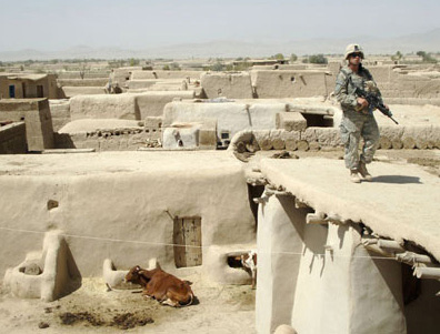 A Soldier from Company D, 2nd Battalion, 4th Infantry Regiment, 10th Mountain Division searches for weapons caches in the village of Alizai in Ghazni Province, Afghanistan. Photo: Spc. Ethan Anderson).